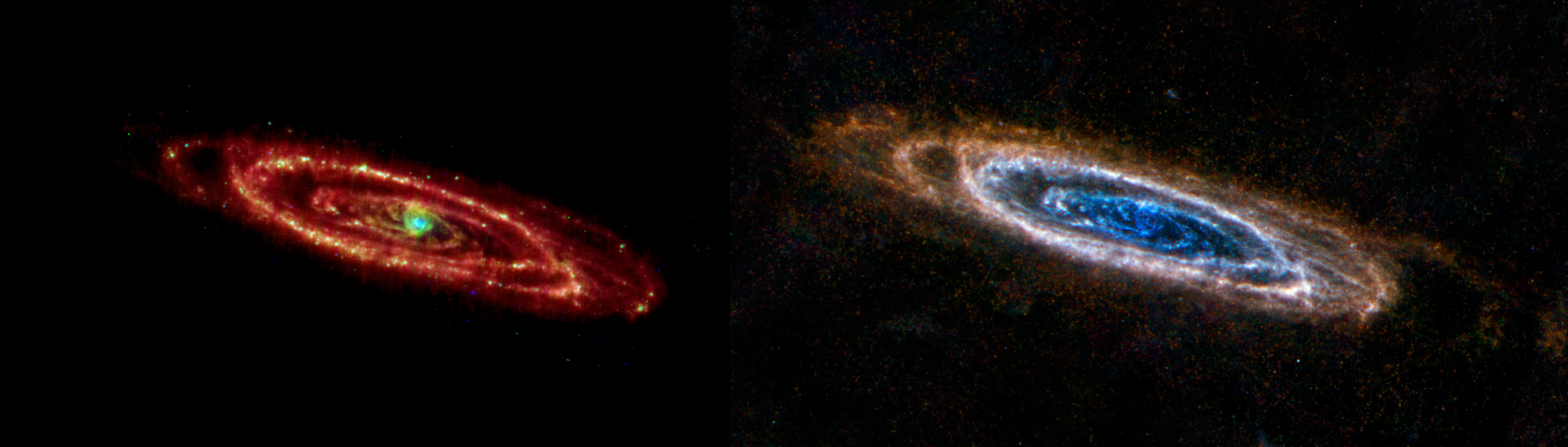 Andromeda galaxy in Infrared, by Spitzer & Herschel Space Telescope